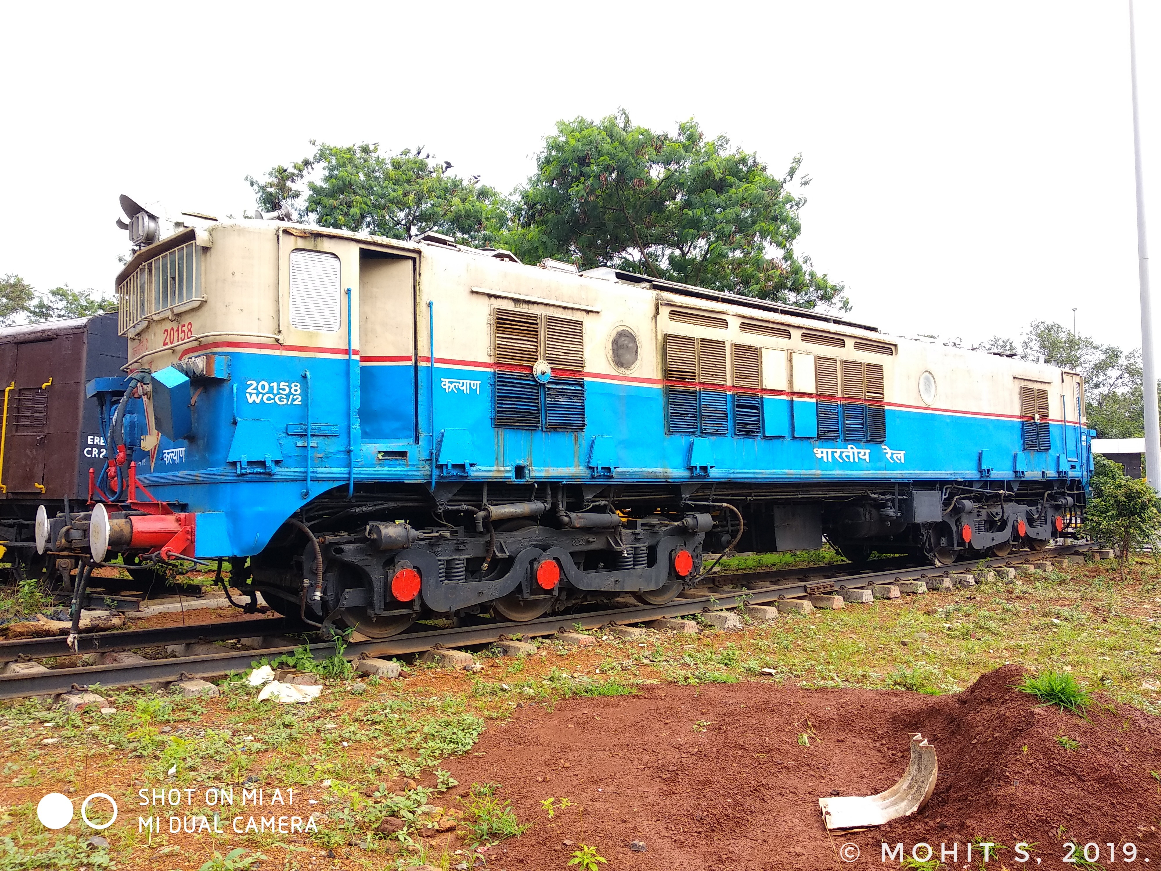 Indian locomotive class WCG-2